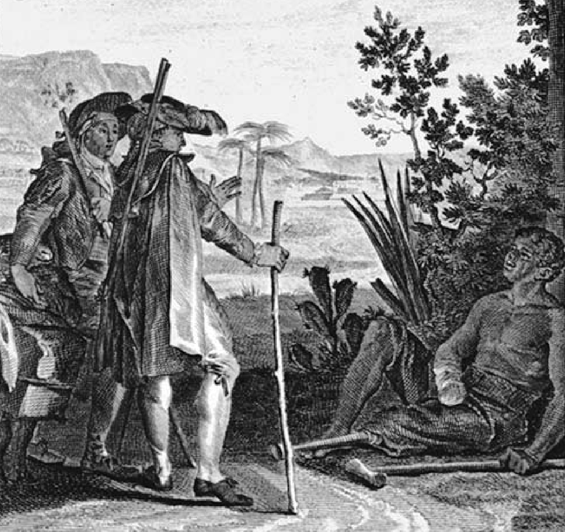 This engraving is from Voltaire's Candide: it depicts the scene where Candide and Cacambo meet a maimed slave of a sugar mill near Surinam. Its caption reads in English, "It is at this price that you eat sugar in Europe"; this line was said by the slave in the text. The "negro" has had his hand cut off for getting a finger stuck in a millstone and his leg removed for trying to run away.